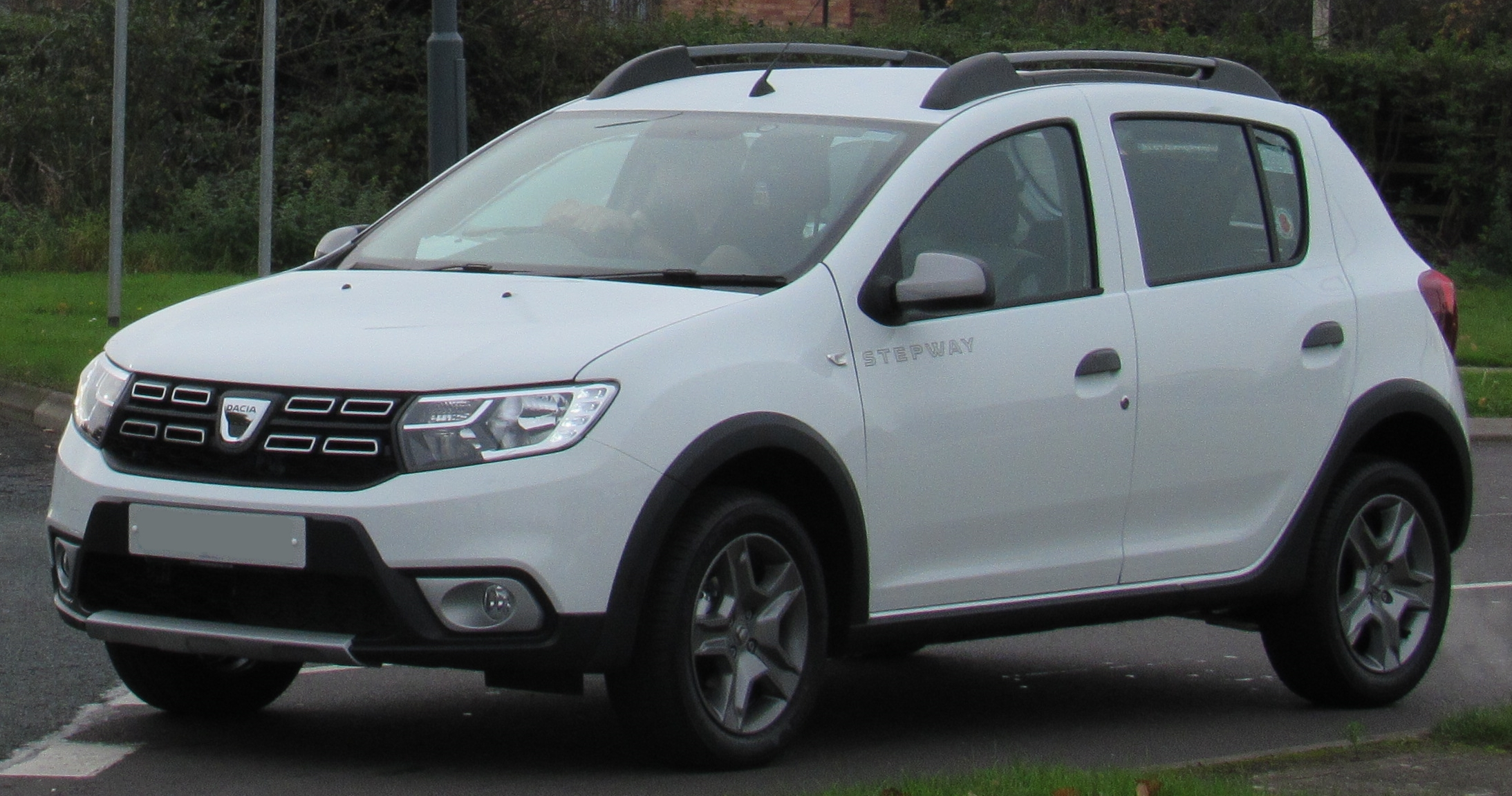 2017 Dacia Sandero Stepway Laureate TCE facelift 900cc Taken in Leamington Spa